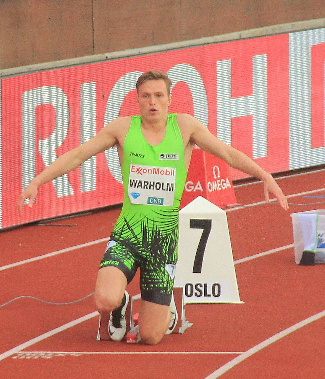 Karsten Warholm at the 2016 Bislett Games